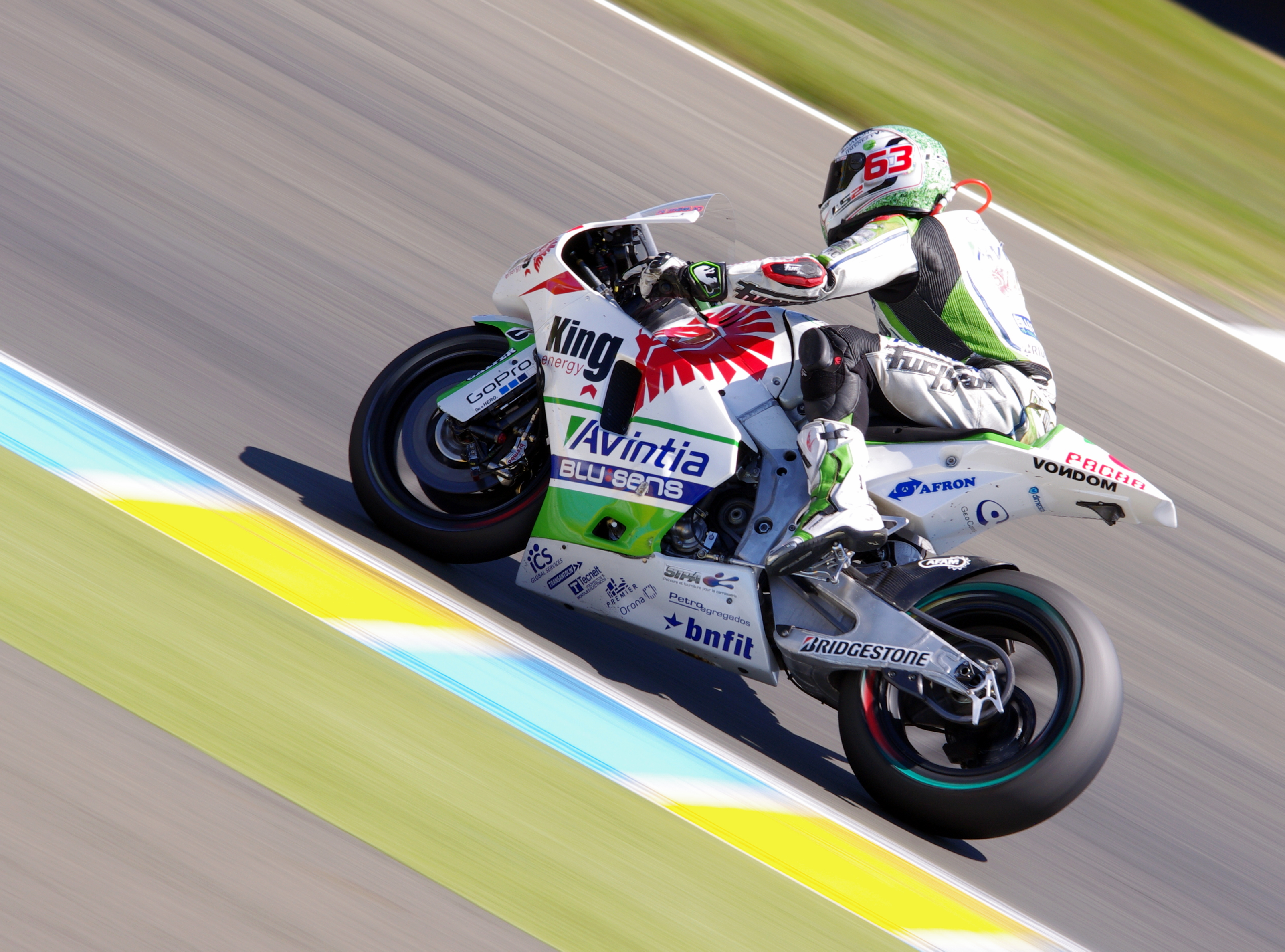 Mike DI MEGLIO - Avintia Racing - MotoGP 2014 - Le Mans 2014 french motorcycle Grand Prix at Le Mans Bugatti Circuit